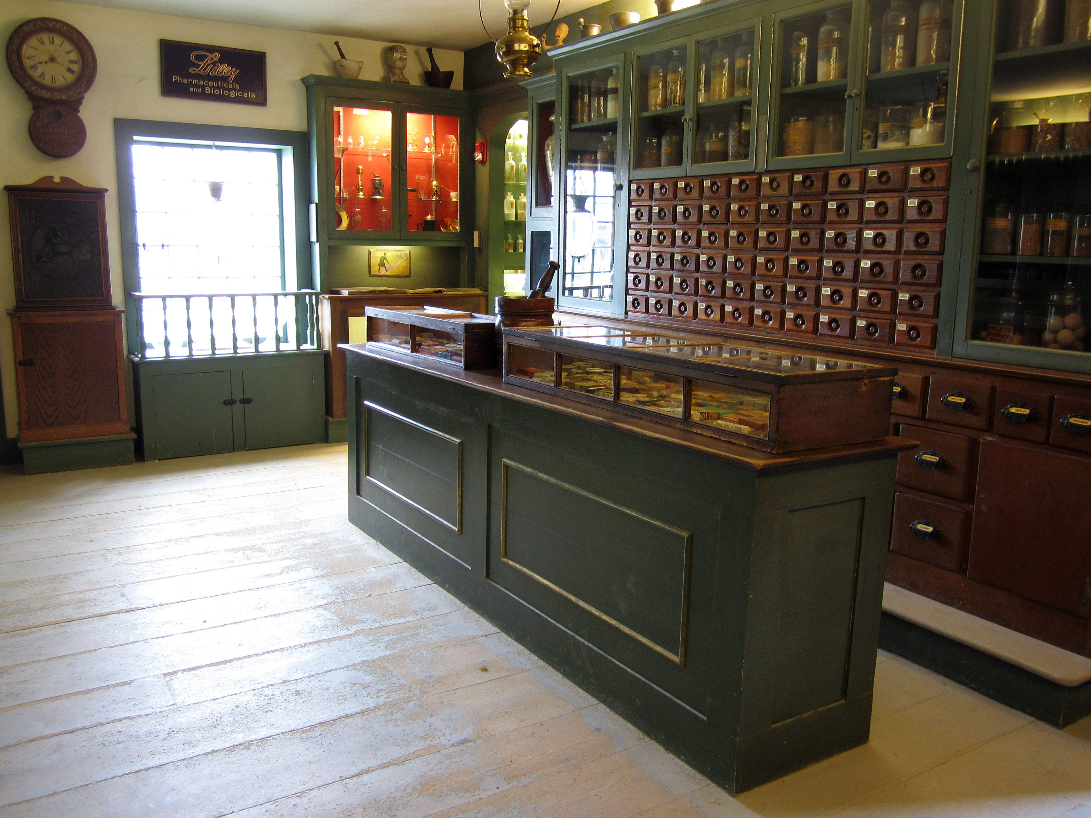 Interior of the Apothecary Shop located at the Shelburne Museum in Shelburne, Vermont. Left side of building interior.